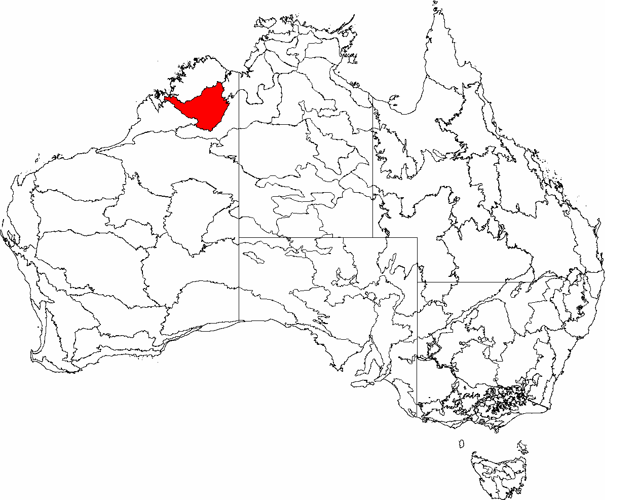 This is a map of the Interim Biogeographic Regionalisation of Australia (IBRA), with state boundaries overlaid. The Central Kimberley region is shown in red.